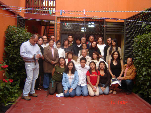 Dr. Francisco Luna Kan (center), former governor of Yucatan, with his family on his golden wedding anniversary.